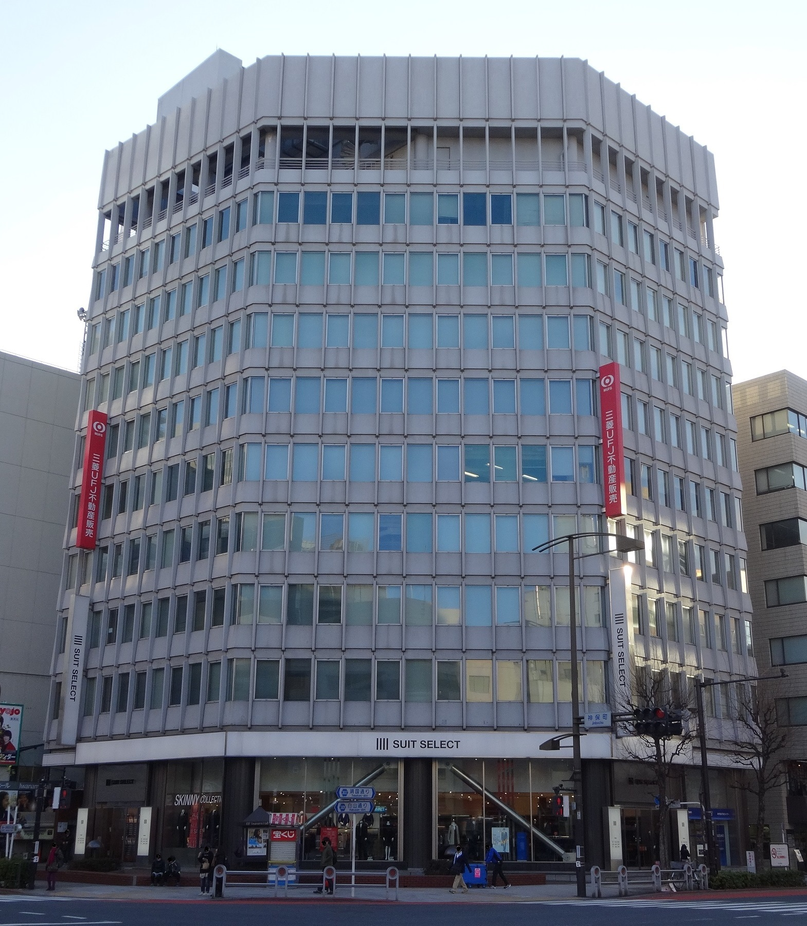 Iwanami Jinbocho building Chiyoda-ku Tokyo,Japan